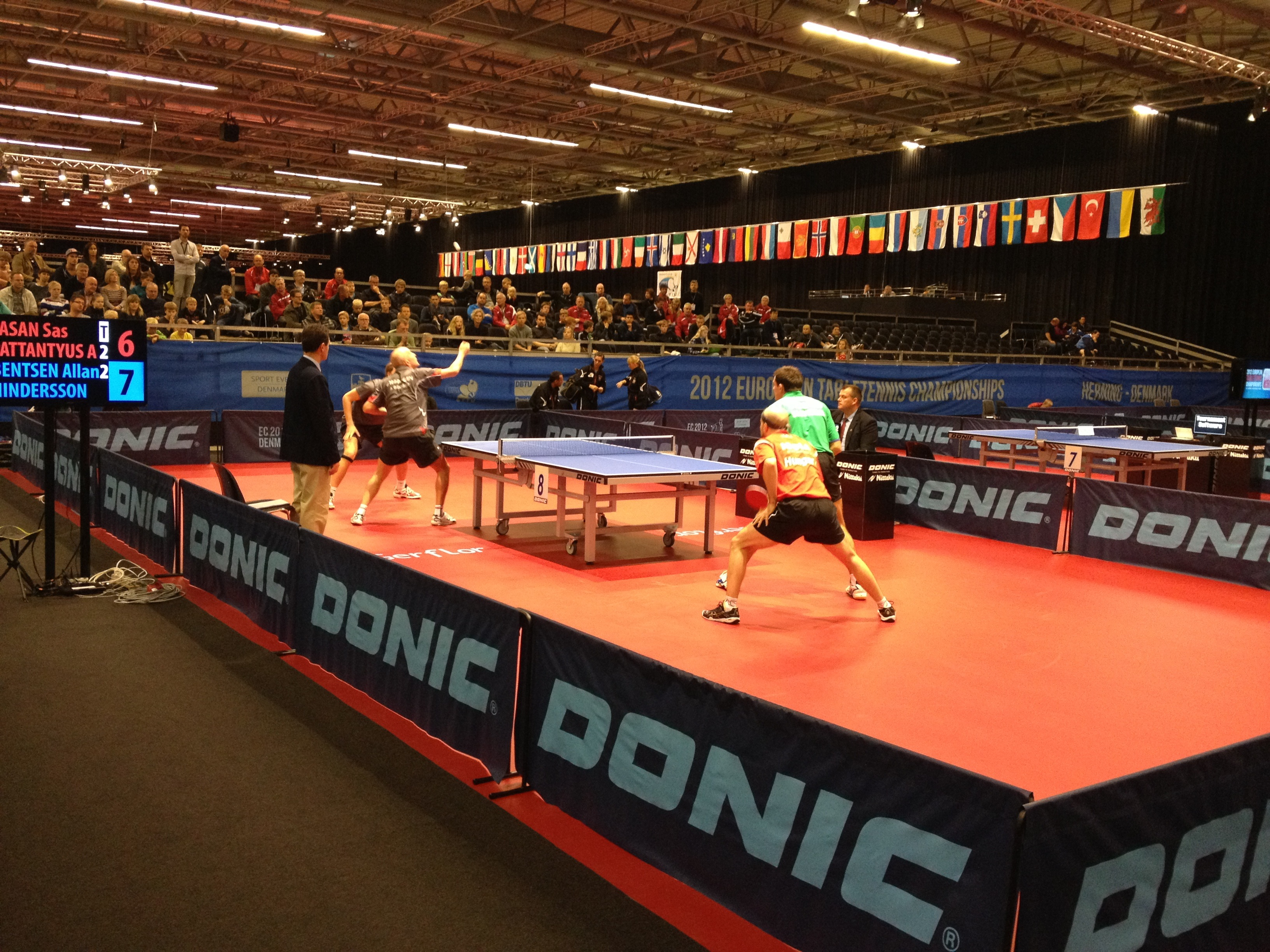 Table Tennis European Championships 2012 Herning